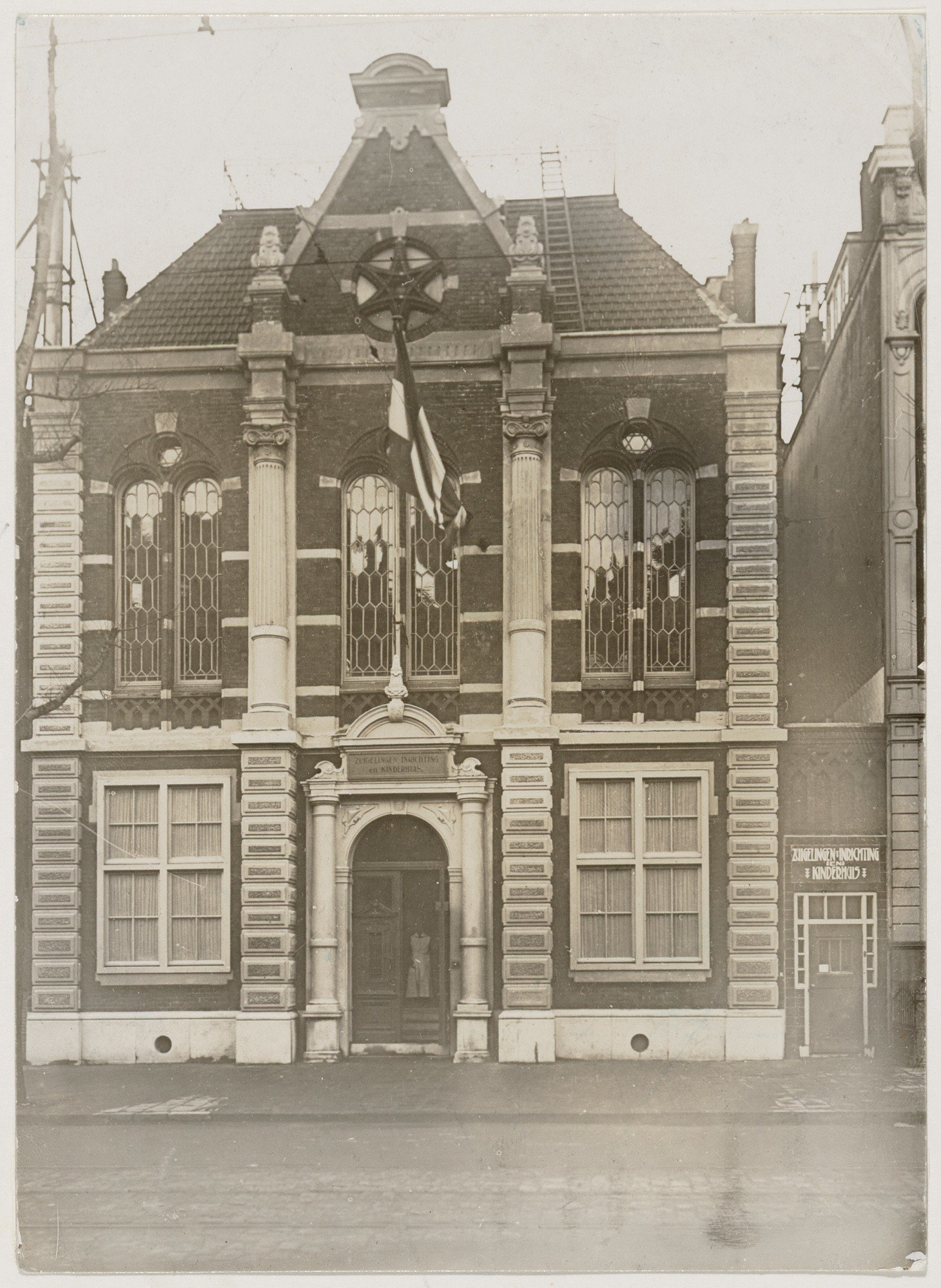 Zuigelingen Inrichting en Kinderhuis, t.t.v. de opening, 29 december 1924 010003001870, 23-05-2002, 09:40, 8C, 4730x2796 (724+1103), 100%, Foto zwart wit, 1/120 s, R55.4, G18.5, B23.8